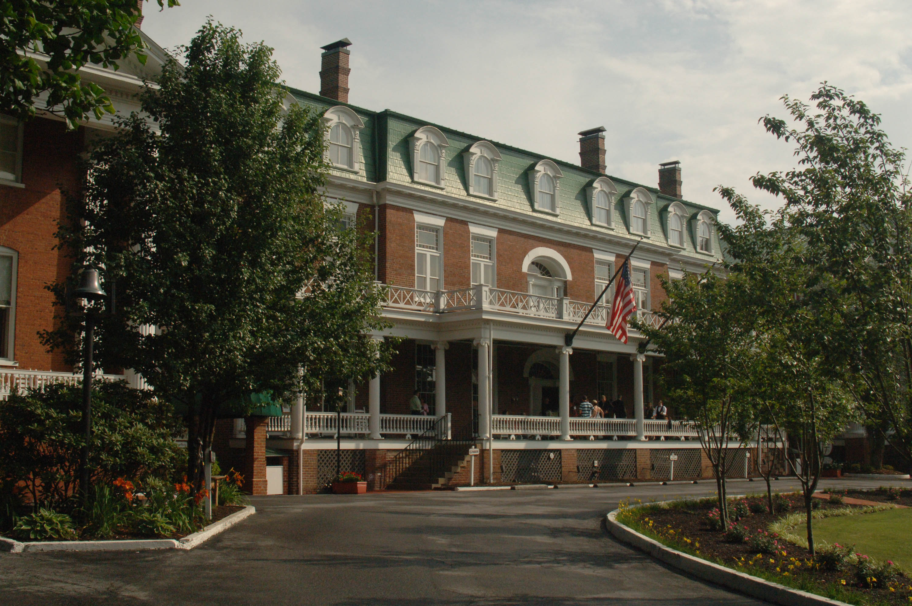 MARY WASHINGTON INN – FORMERLY MARY WASHINGTON COLLEGE HOUSED IN AN 1832 HOUSE. COLLEGE CLOSED IN 1931 AND CONVERTED INTO AN INN IN 1937